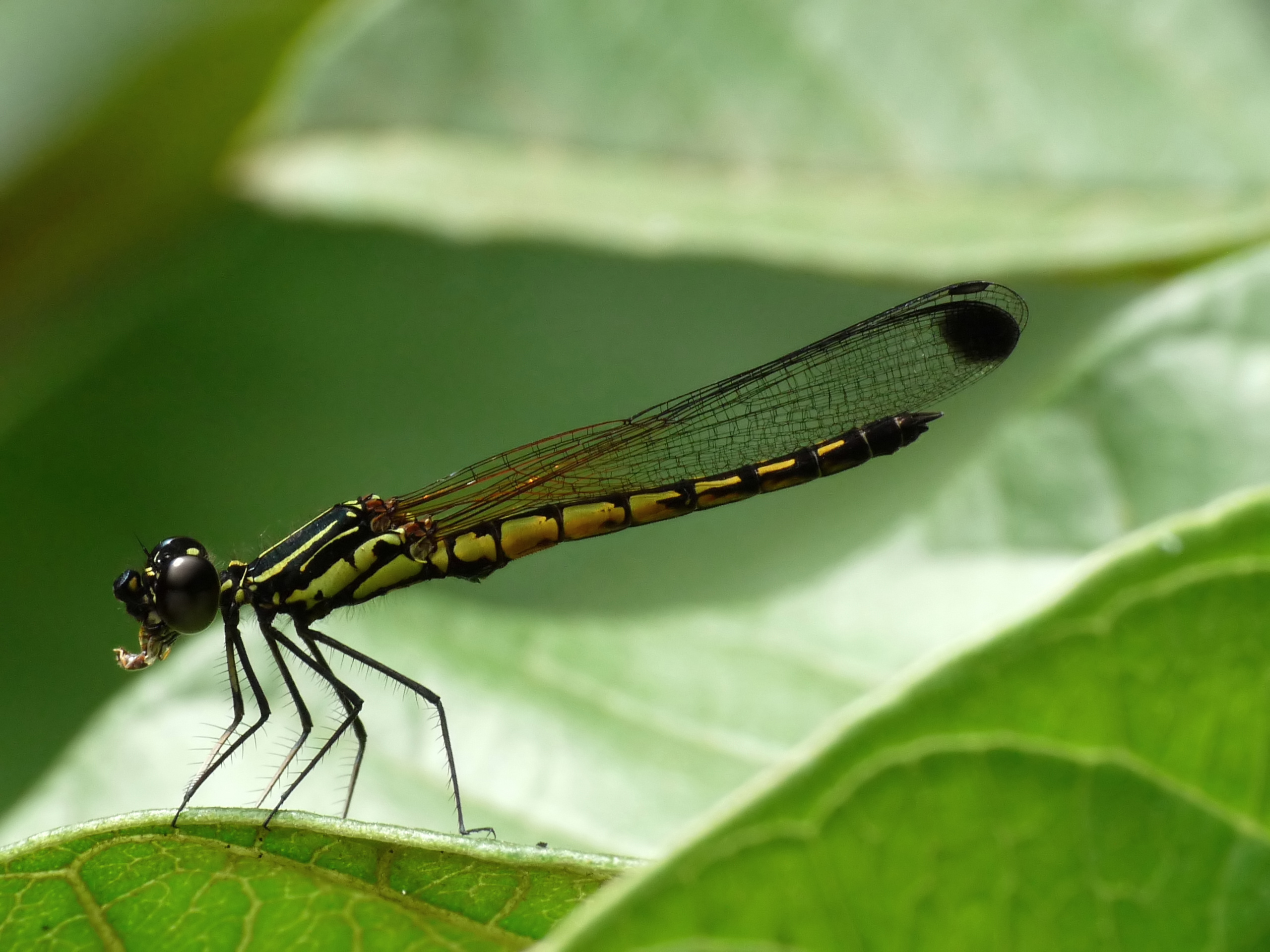 Libellago lineata, River Heliodor, Stream Heliodor, Yellow-lined Gems, is a small black and yellow damselfly with black tipped transparent wing; confined to hill streams and rivers of forested landscapes. Frequently sits in emergent water plants and overhanging bushes. Their preferred home is along the banks of rivers. The fully adult male has black and yellow markings along the thorax and abdomen. It has more black when fully matured. It also has white markings on the legs. The biggest difference though, is that it develops black marks on the tops of the wings, that make it look really distinctive. A young male is similar to the adult, but doesn't yet have the black markings on the wings and there is less black on the abdomen. The female is similar to the sub-adult male, except the abdomen is much more robust. and the markings on the abdomen are slightly different. Note: This is Libellago indica Fraser, 1928; now considered as a separate species.